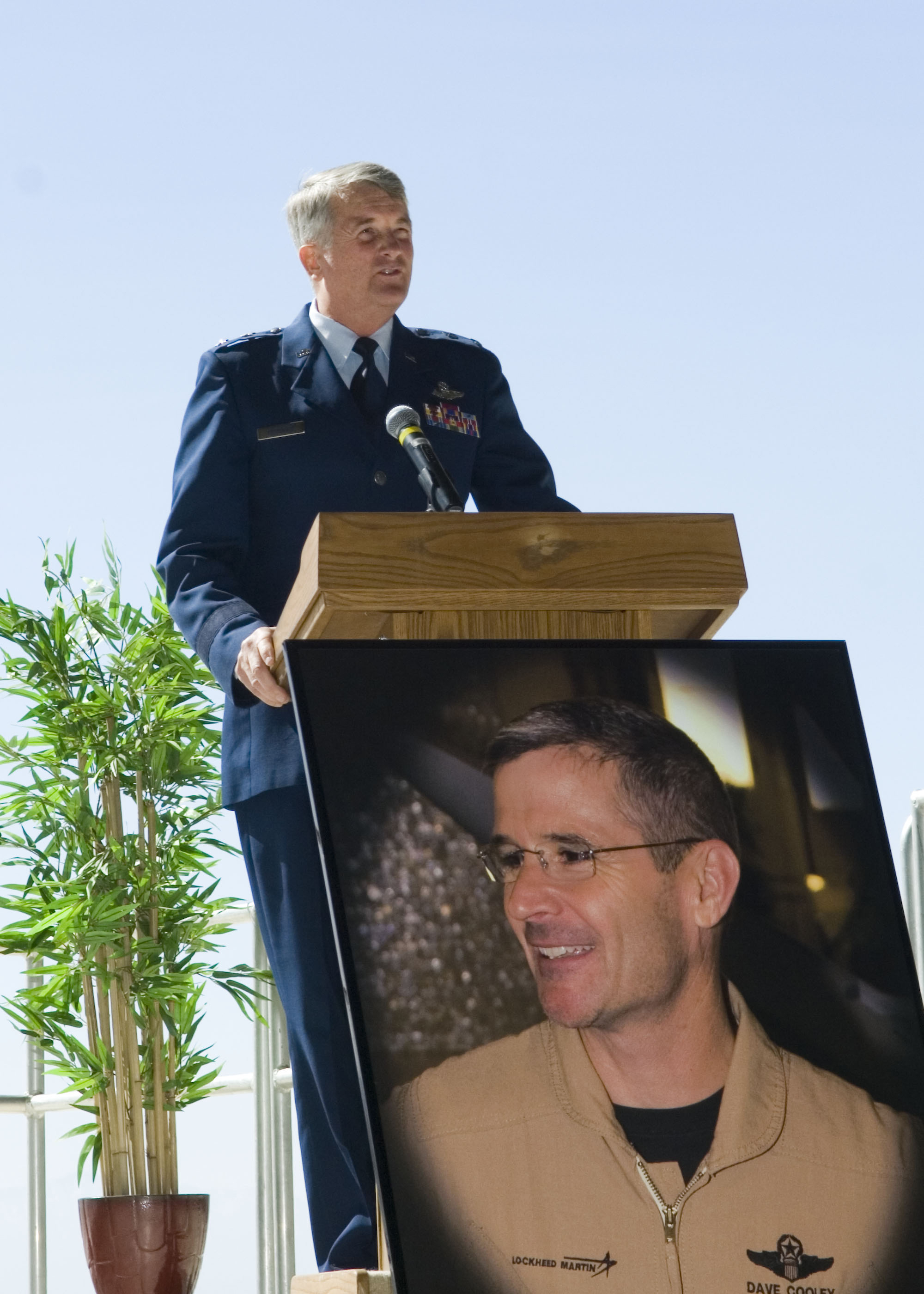 Edwards bids goodbye to test pilot, wingman, friend Maj. Gen. David Eichhorn, Air Force Flight Test Center commander, talks about retired Lt. Col. David Cooley during a memorial service at Hangar 1600 April 1. Colonel Cooley, Lockheed Martin F-22A Raptor test pilot, died in an F-22A crash March 25 during a test mission, northeast of Edwards. General Eichhorn also talked about the effort it took for the base and the entire Mojave Valley to recover Colonel Cooley's remains.